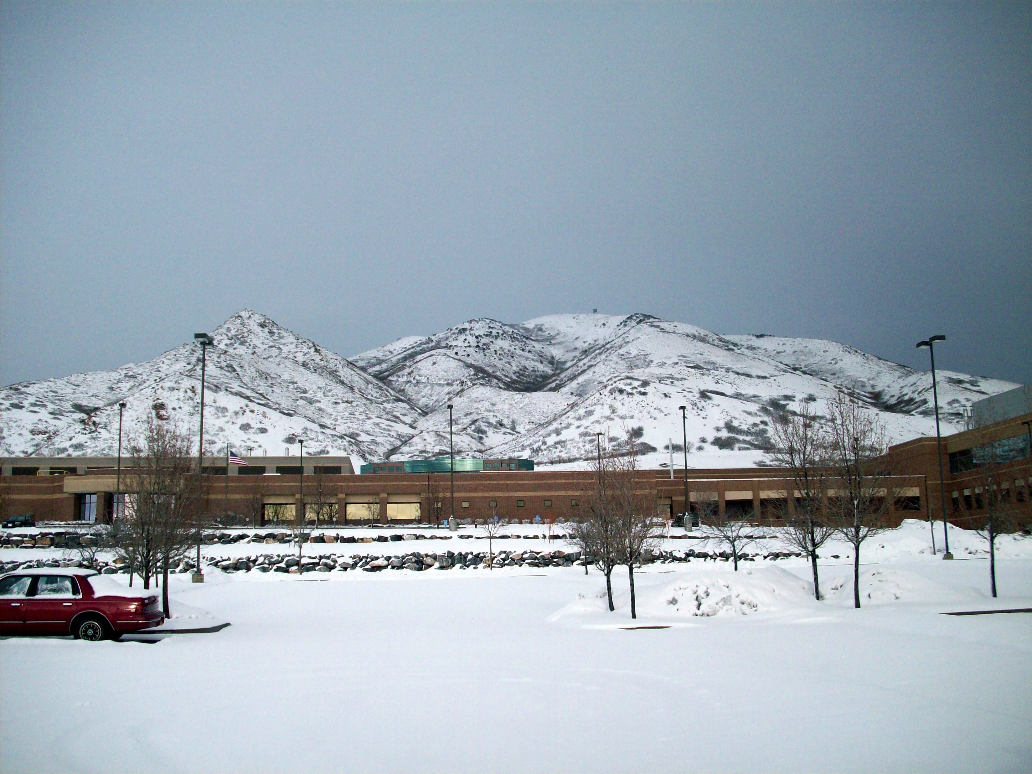 Wire Mountain, looking east.